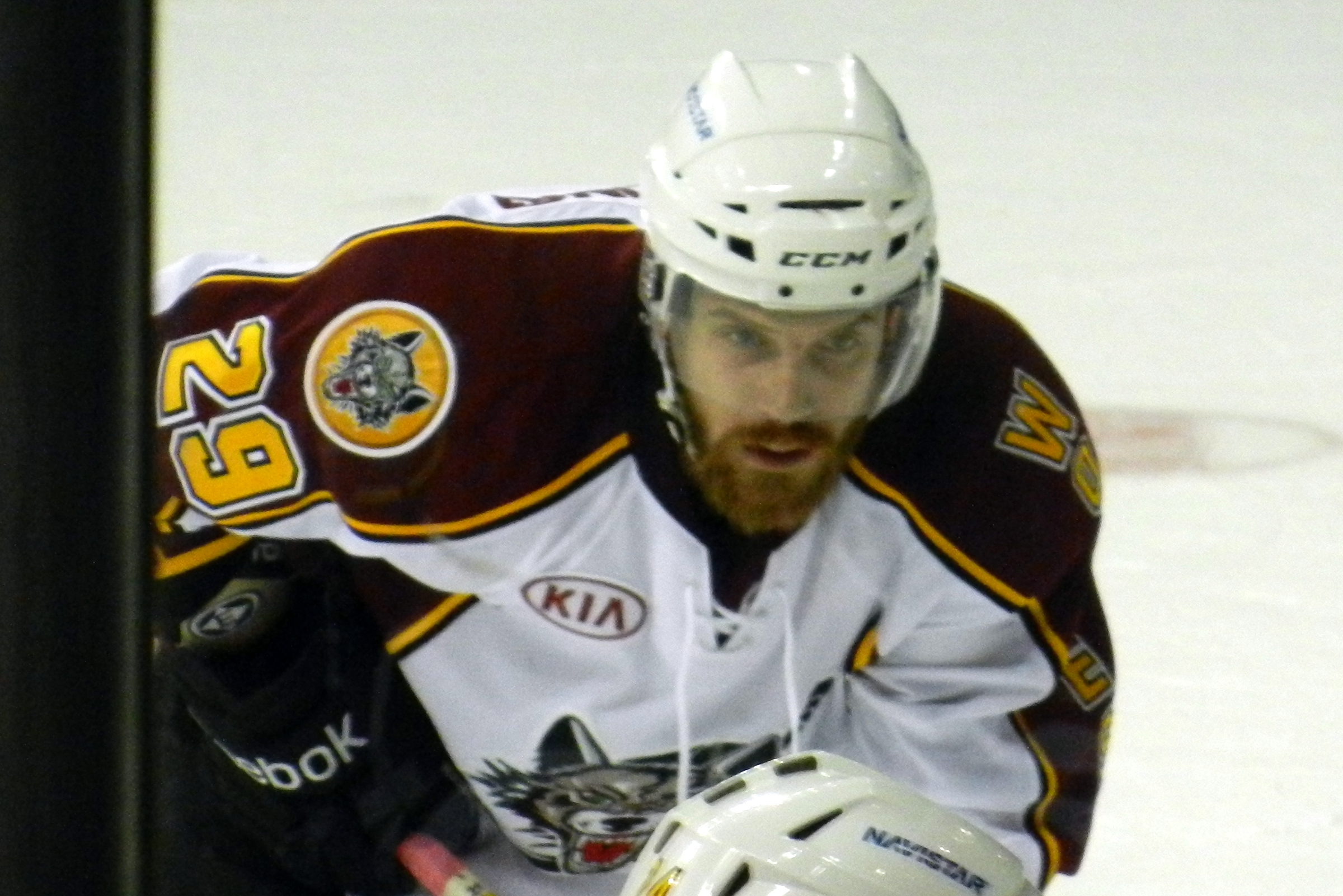 Brett Sterling playing for the Chicago Wolves during the 2012-13 AHL season